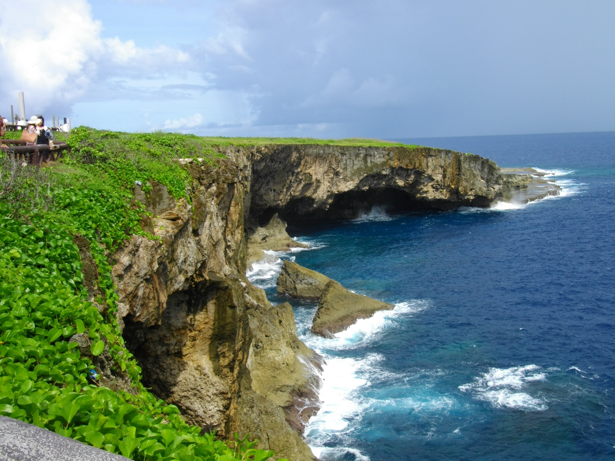 Banzai Cliff in Saipan